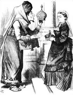 An 1876 political cartoon, originally published in Punch, of Benjamin Disraeli (1804–1881) making Queen Victoria Empress of India. It had the caption, "New crowns for old ones!".